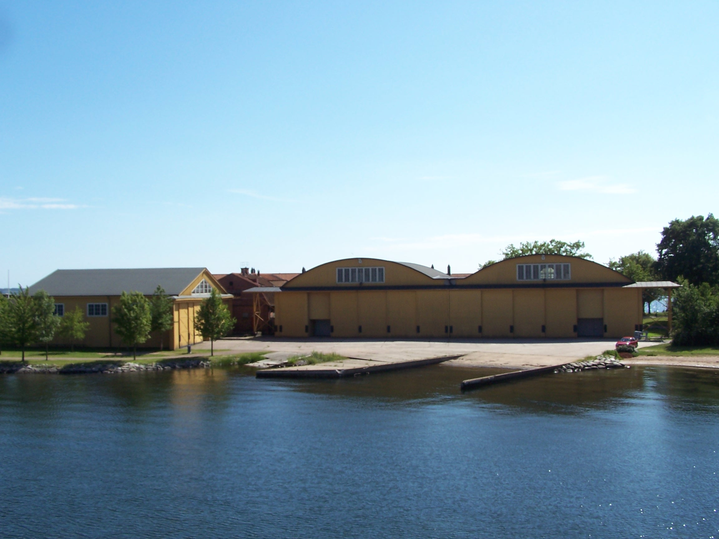 Hangar no 3 and 4, Stumholmen, Karlskrona